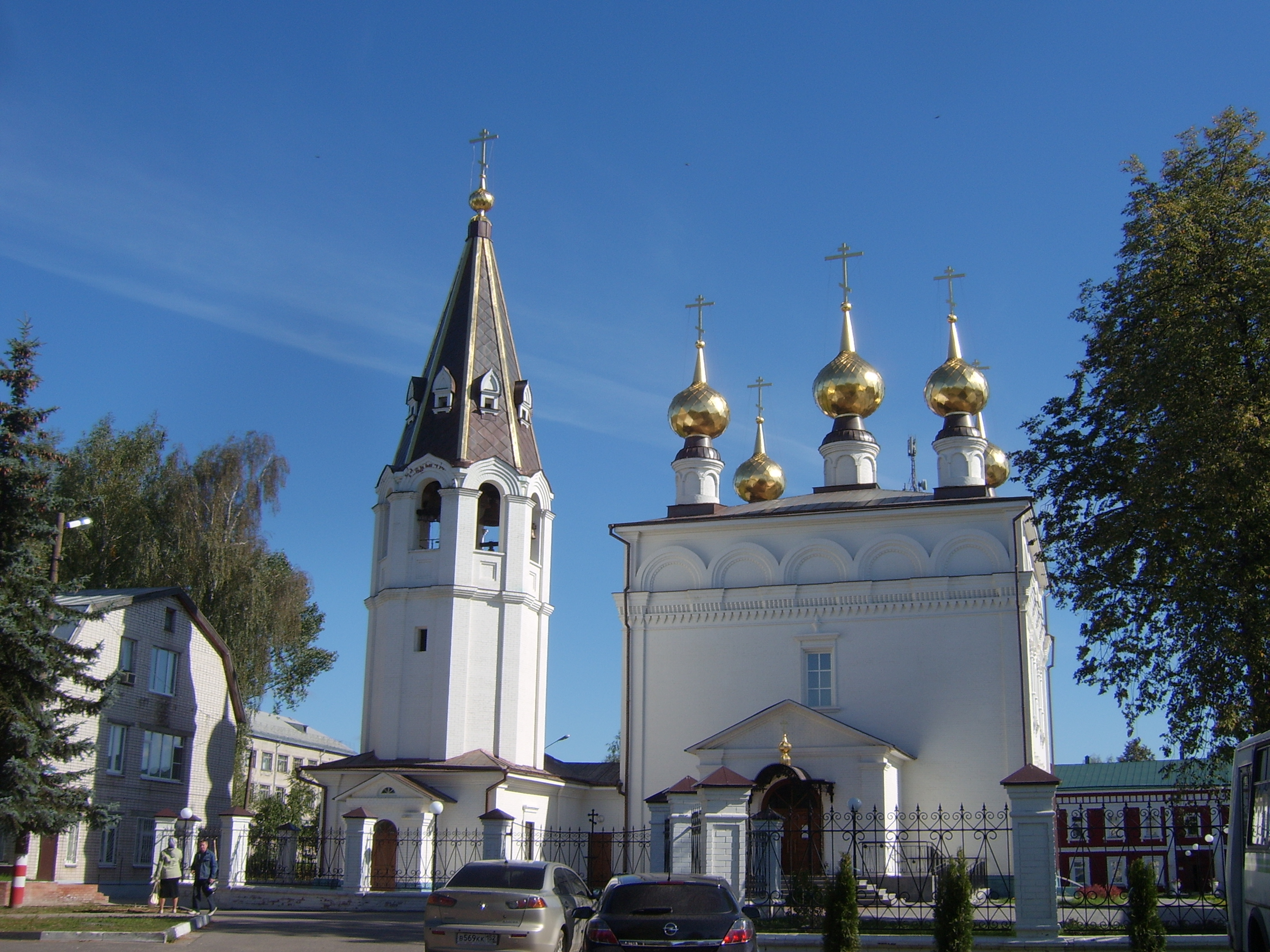 Feodorovskaya Church in Gorodets, Nizhny Novgorod Oblast, Russia